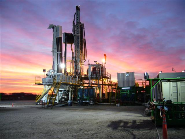 YPF petroleum perforation (H-104). General Roca, Rio Negro, Argentina.